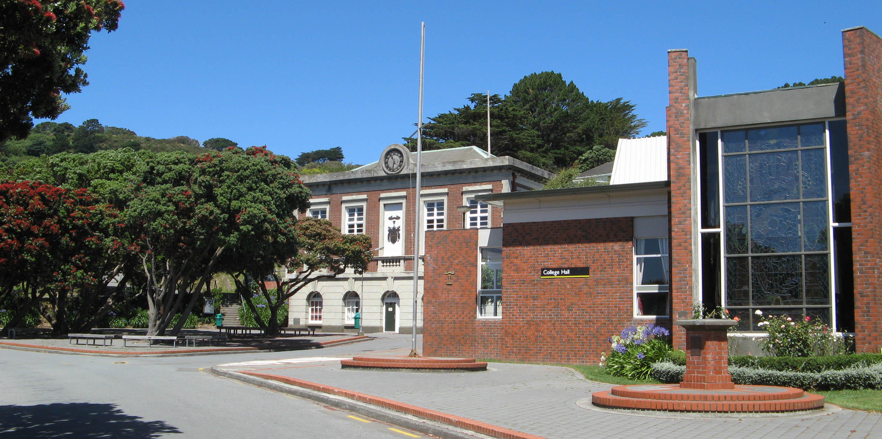 Wellington College, January 11th 2008.